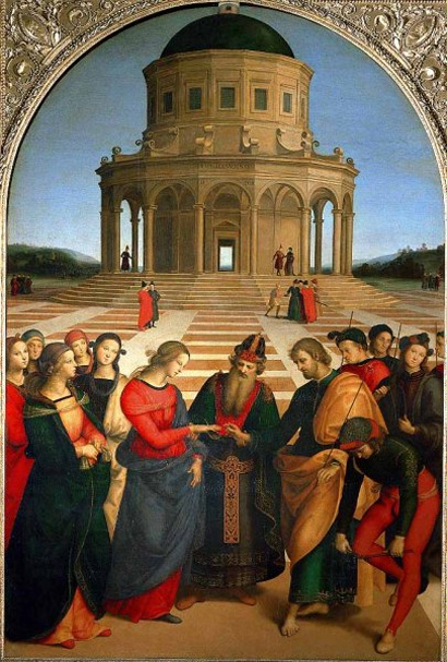 Virgin Mary's Marriage